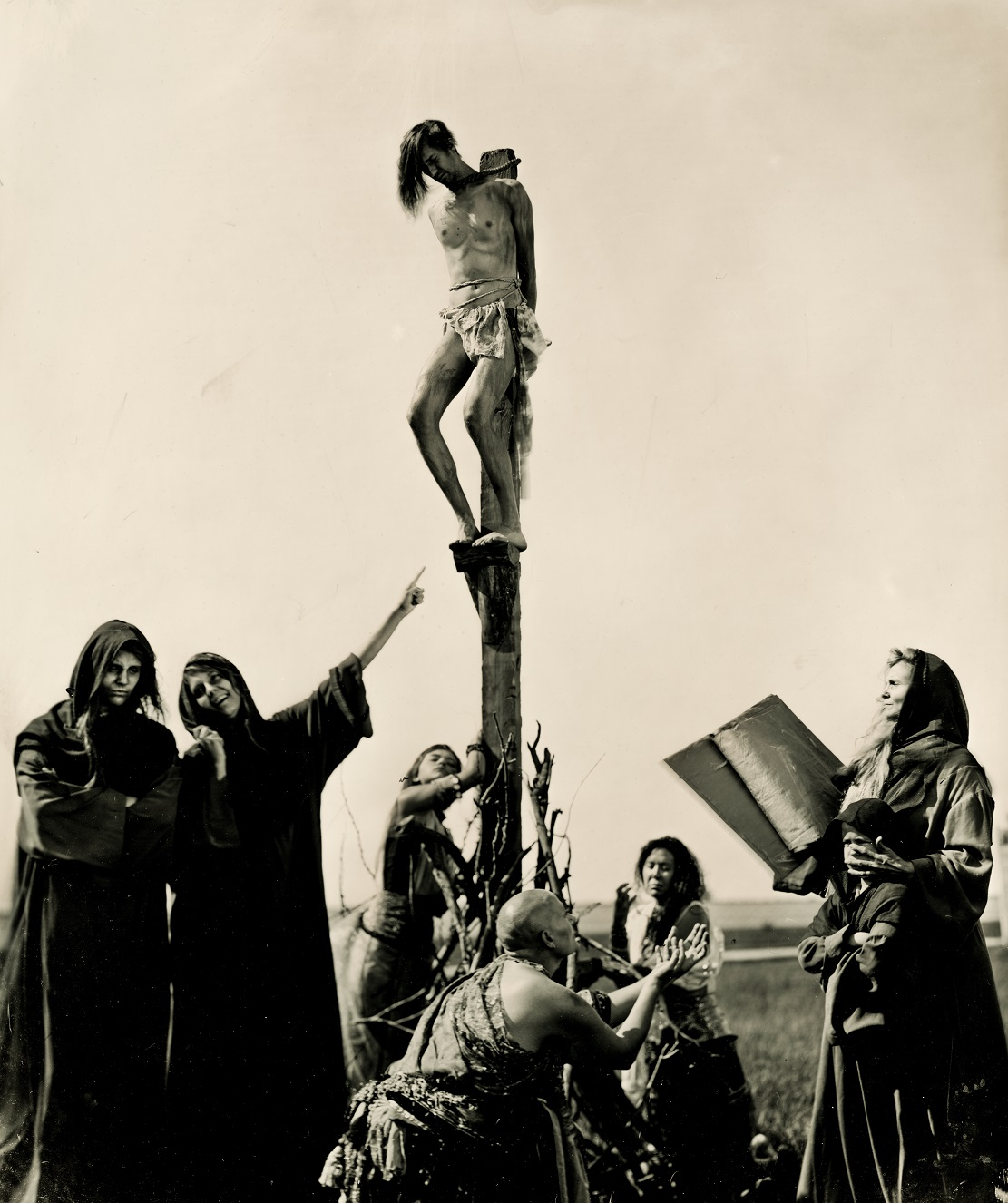 "The Persecution of Complete Strangers", 8x10" black glass ambrotype in the historic wet plate collodion process. Inspired by William Mortensen, and dedicated to the life of Hande Kader. Carl Zeiss Tessar 360mm lens, 2 seconds of exposure, f11, plates 8x10".